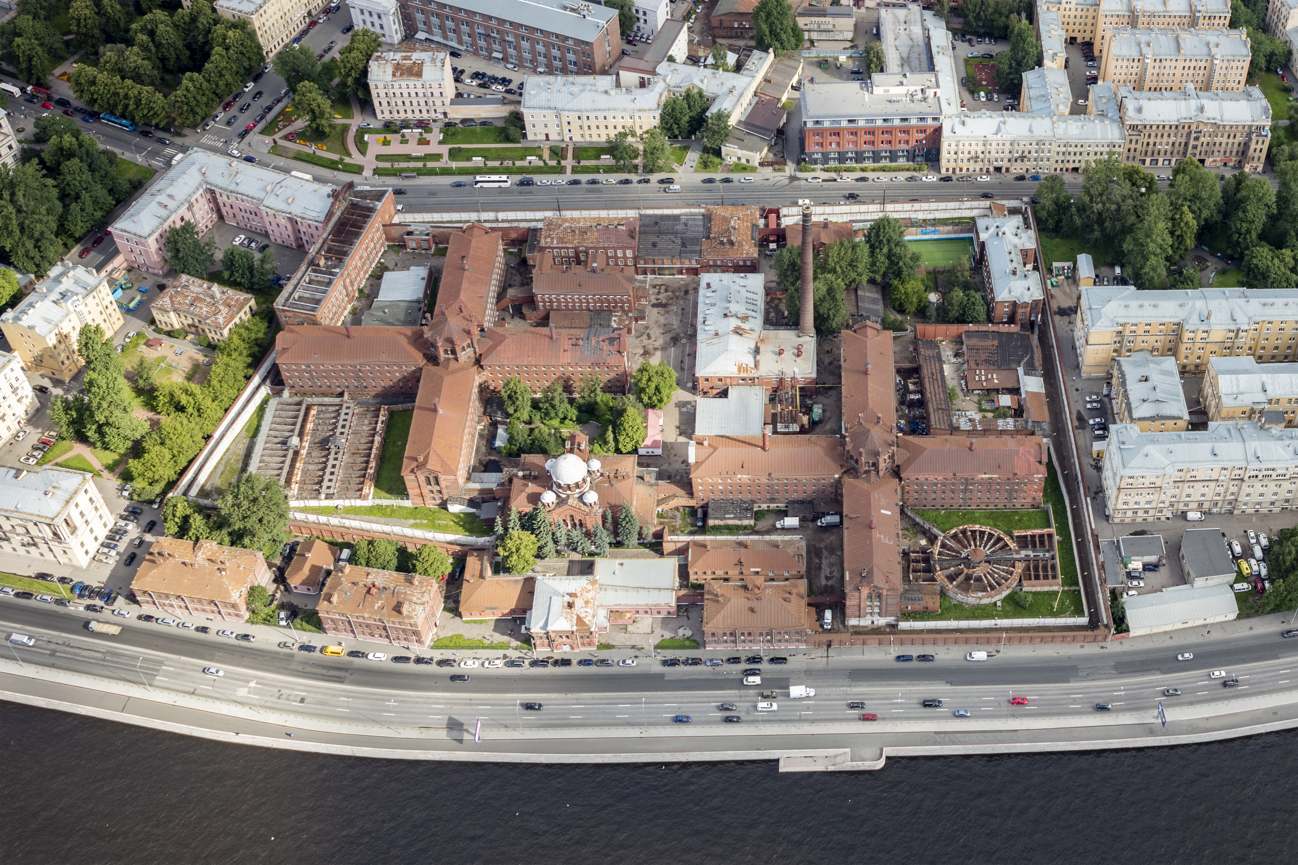 Kresty Prison, Saint Petersburg, Russia.